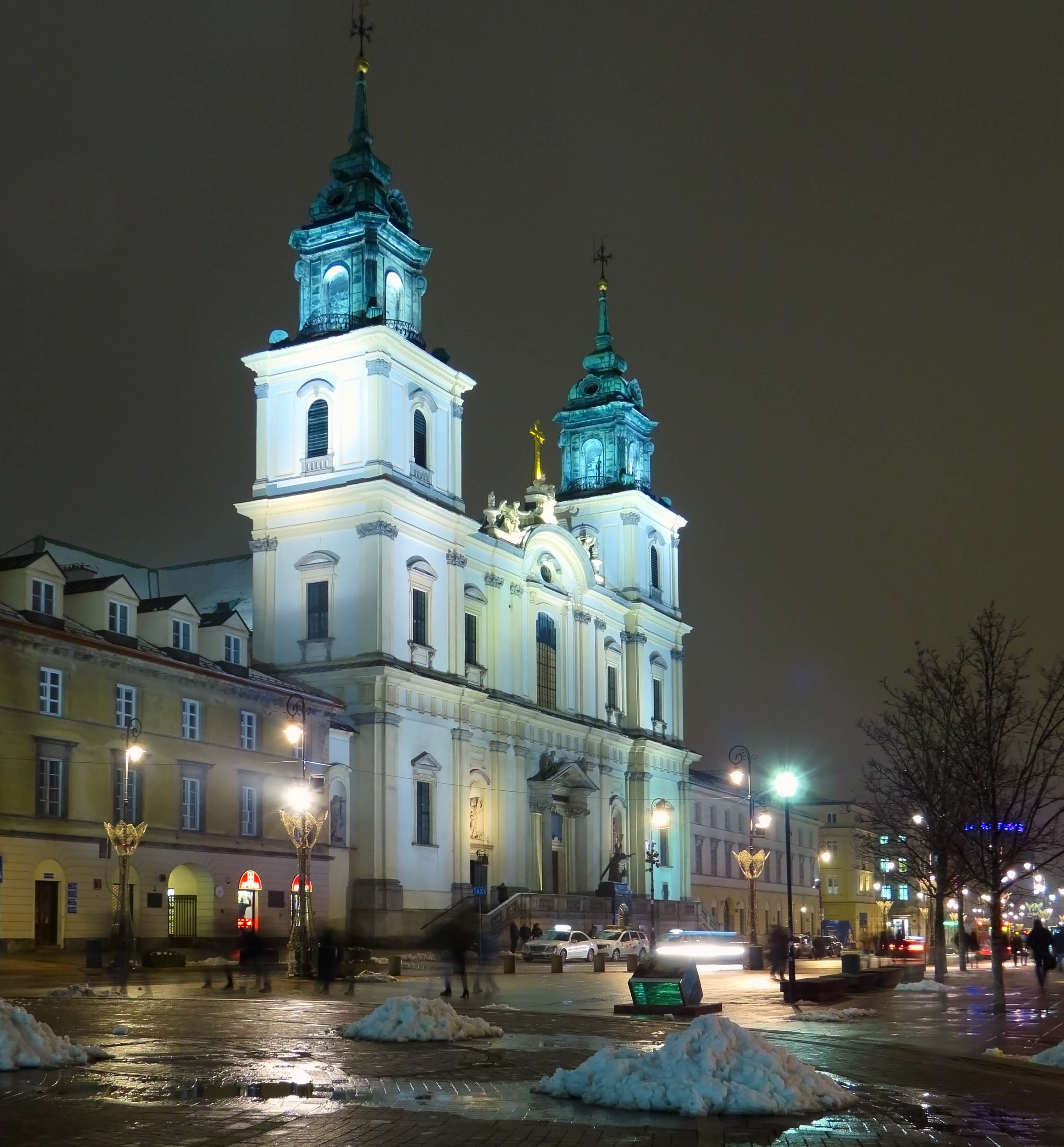 Holy Cross church in Warsaw